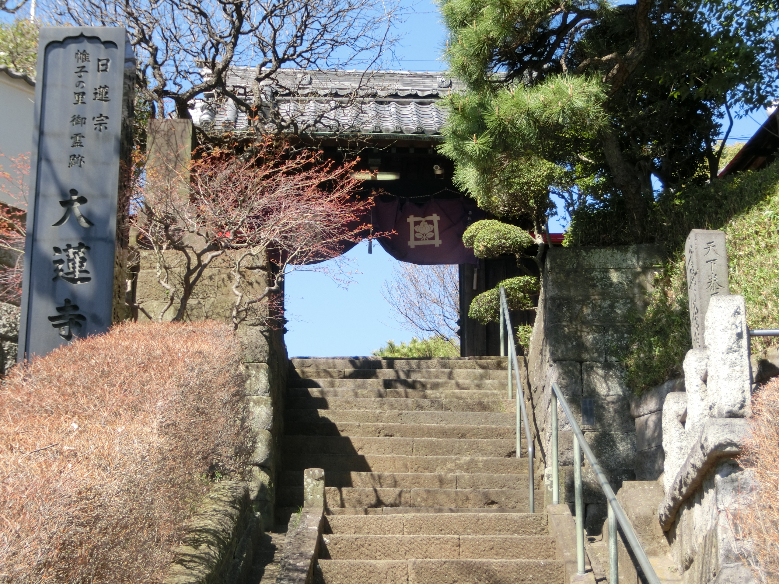 Dairen-ji (Yokohama)